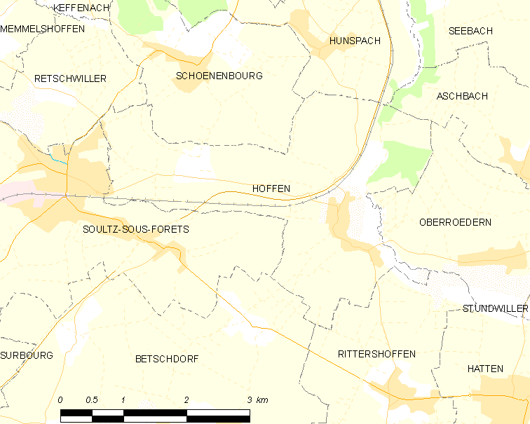 Map of French municipality